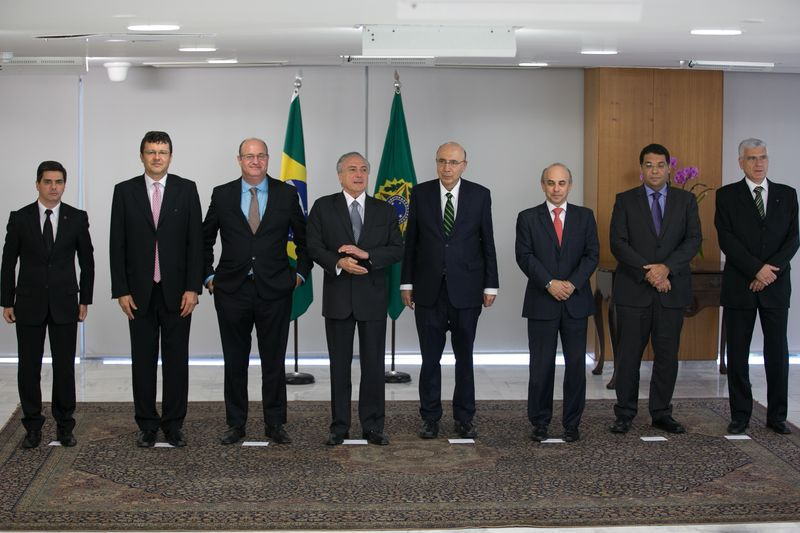 President Michel Temer meets with his economic team.